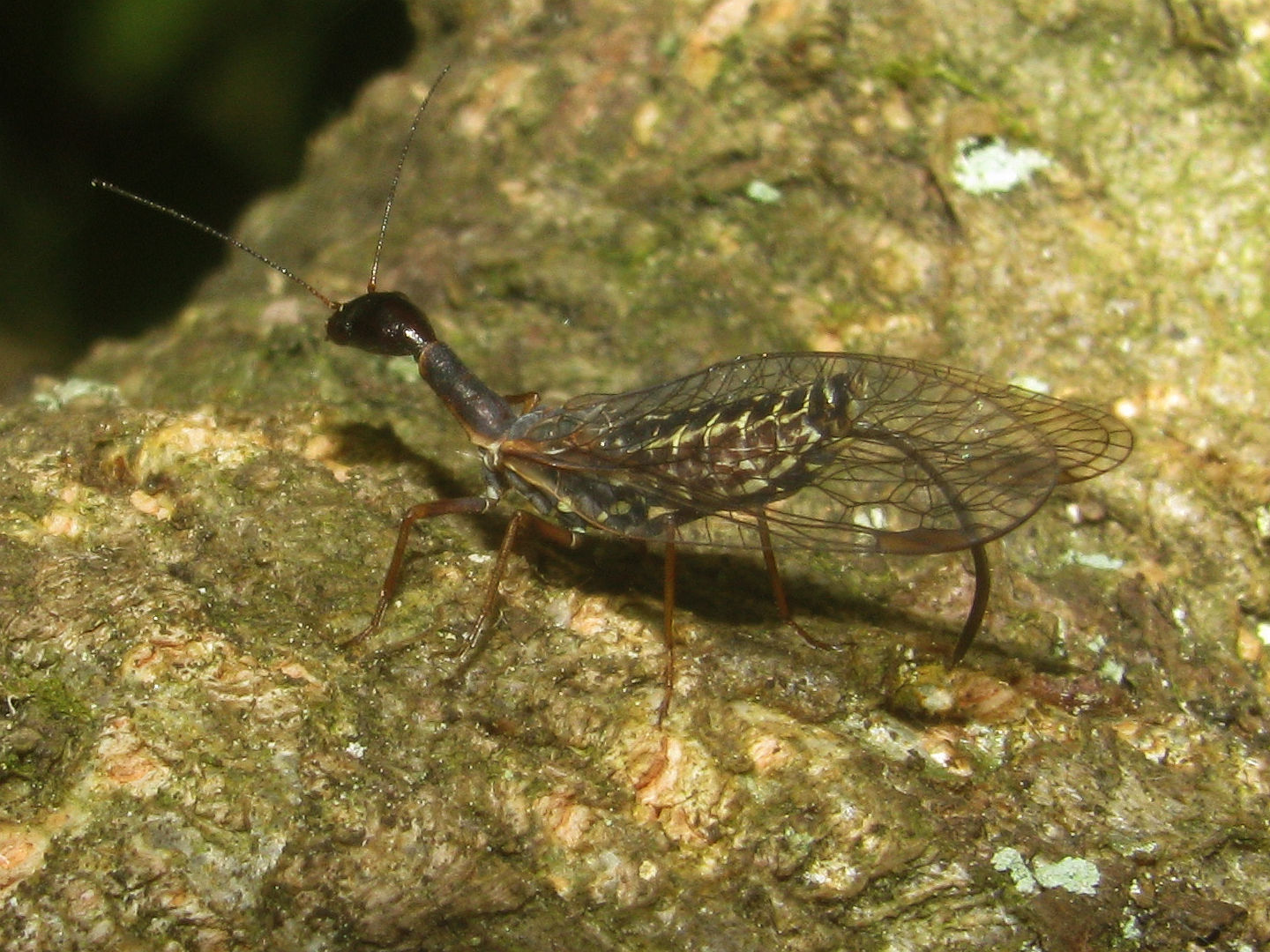 Atlantoraphidia maculicollis searching for a spot to place eggsLocation: Reeenberg, Netherlands Keywords